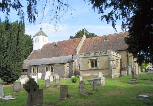 St Laurence, Wormley, Herts